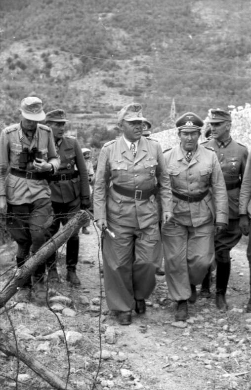 Information added by Wikimedia users.*